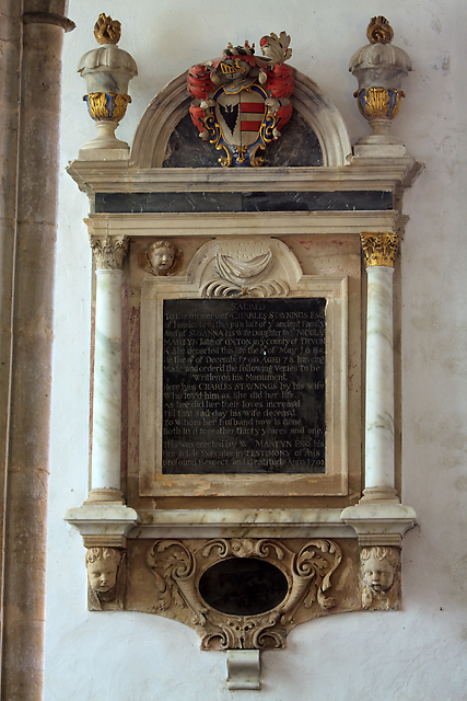 All Saints church, Selworthy - monument to Charles Staynings